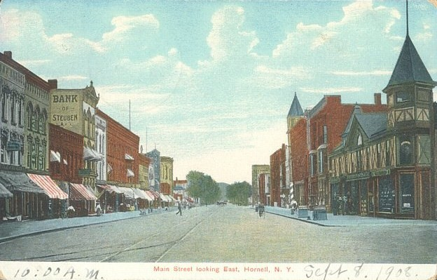 Postcard picture: Main Street, looking east in Hornell, New York; store Web page states: "Unless otherwise stated, all postcards are standard size (3 1/2 x 5 1/2 inches)."